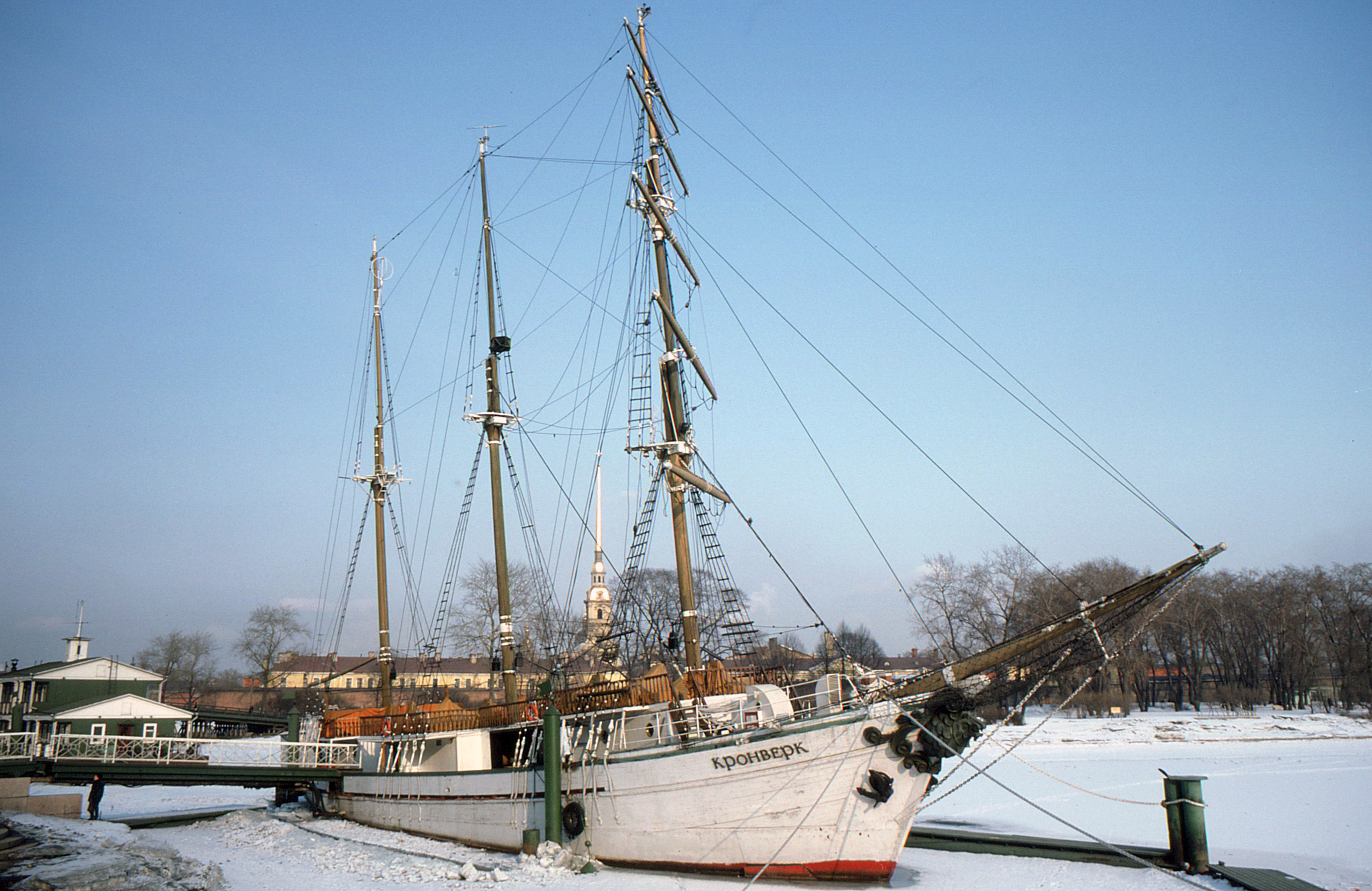 Touristic view